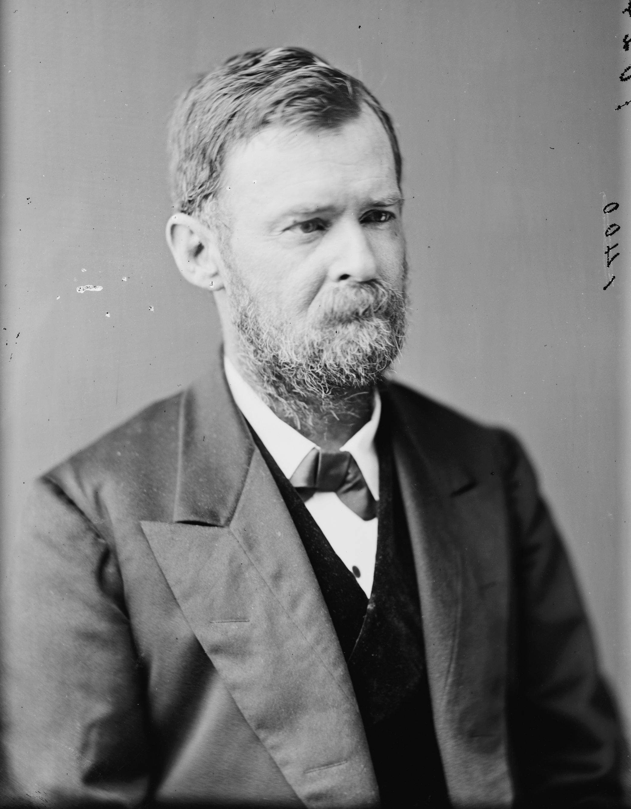 William Ephraim Smith. Library of Congress description: "Smith, Hon. Wm. Ephraim of GA. 1st Lt. In 4th Georgia Inf., Capt in 1862".